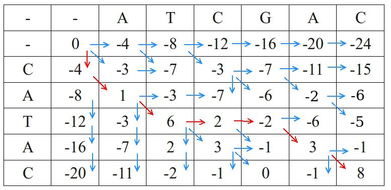 A Needleman-Wunch algorithm example. Arrows are showing how the algorithm passes through the matrix. Red arrows are the best alignment.